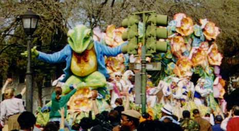 New Orleans Mardi Gras: Rex parade float depicting frog on Napoleon Avenue, New Orleans, Louisiana, Mardi Gras Day. Photo by Infrogmation, 23 February 1993 Previously uploaded by me to Wikipedia with the same title on 04:30, 14 February 2004 . Uncropped higher res photo: Image:NapoleonRexFrog.jpg